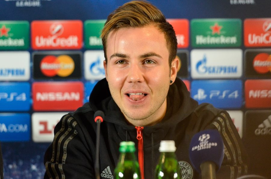 Mario Goetze in 2015